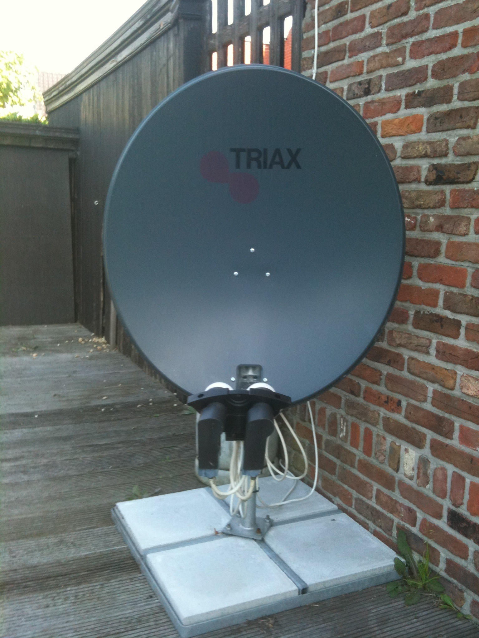 Satellite dish made by Triax on stand with tiles for television reception by satellite.